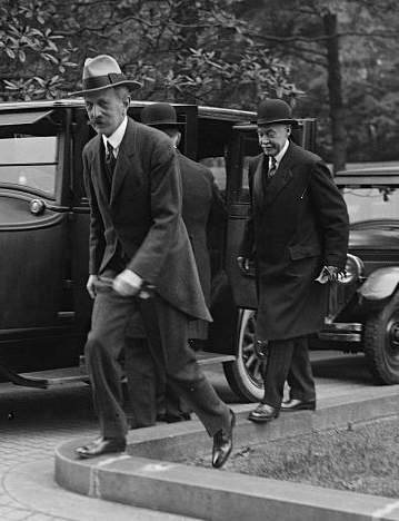 French ambassador Émile Daeschner (1863-1928) (left) and French politician Pierre de Chambrun (1865-1954) (right) at the US Treasury.